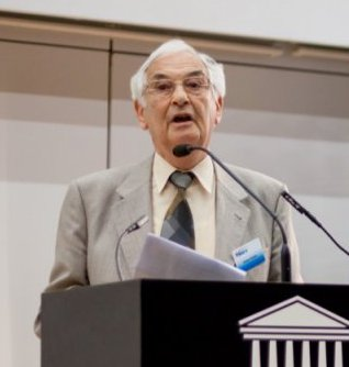 Niceas Schamp